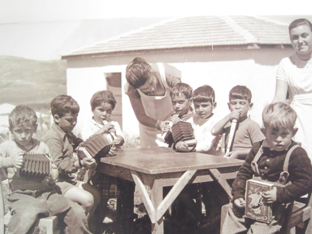 Landscape view, Settlements in Israel